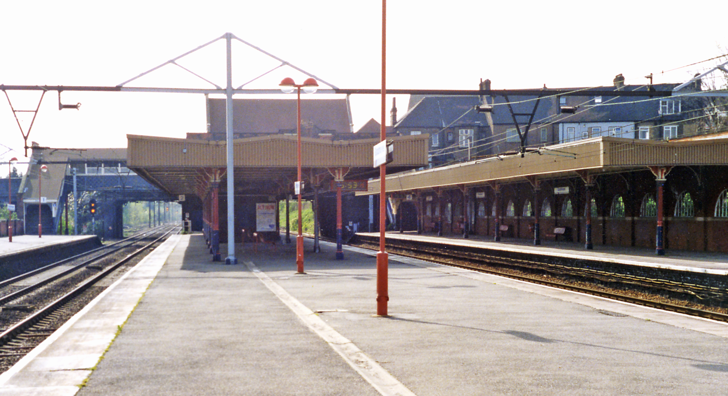 Goodmayes station, 1995. View westward, towards Stratford and London Liverpool Street: ex-GER London - Colchester - Ipswich - Norwich main line, electrified as far as Shenfield in 1949. The Local (Slow) lines are on the right.